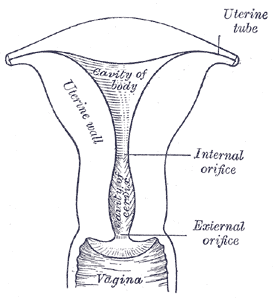 Posterior half of uterus and upper part of vagina.